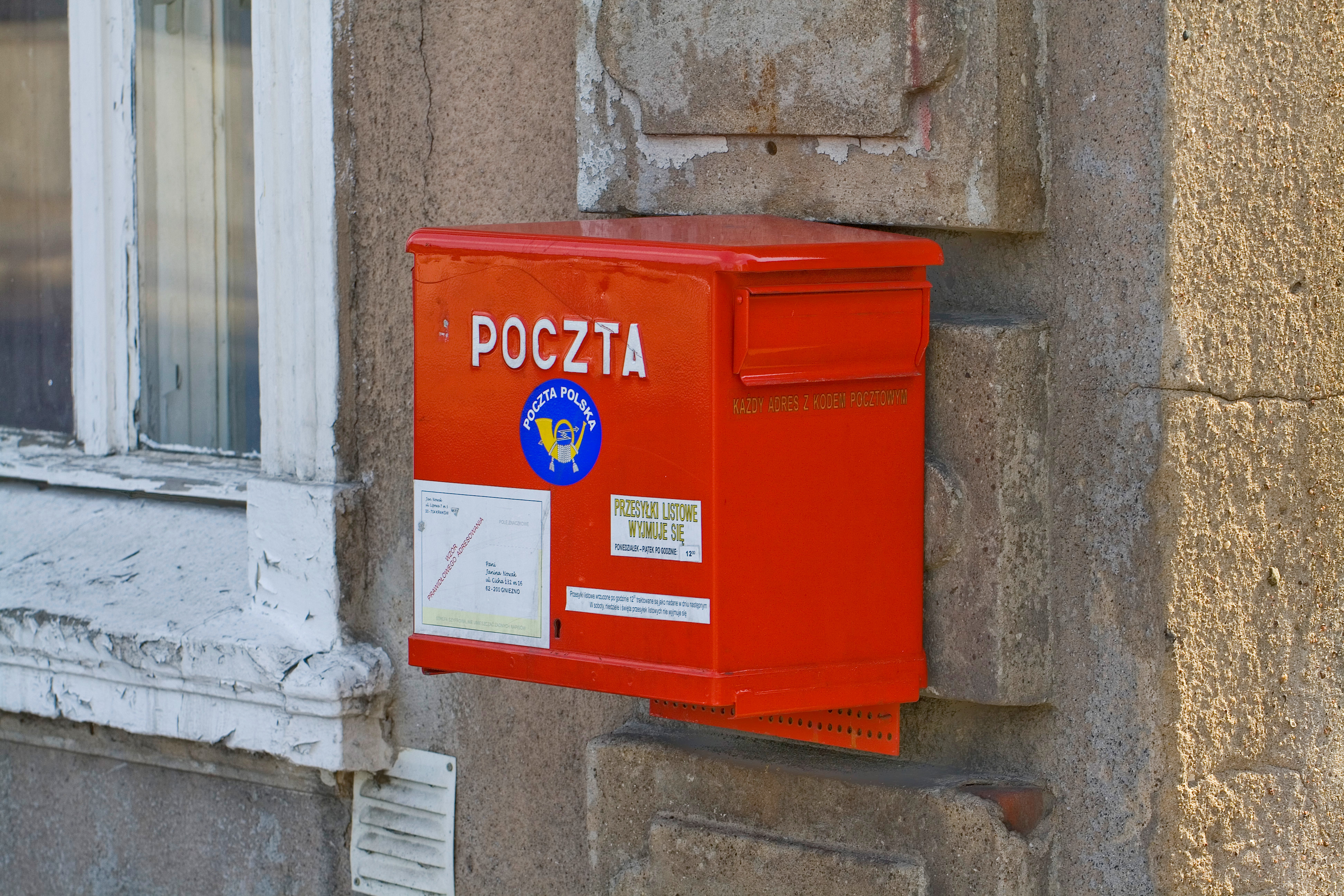 Post box, Gniezno, Poland